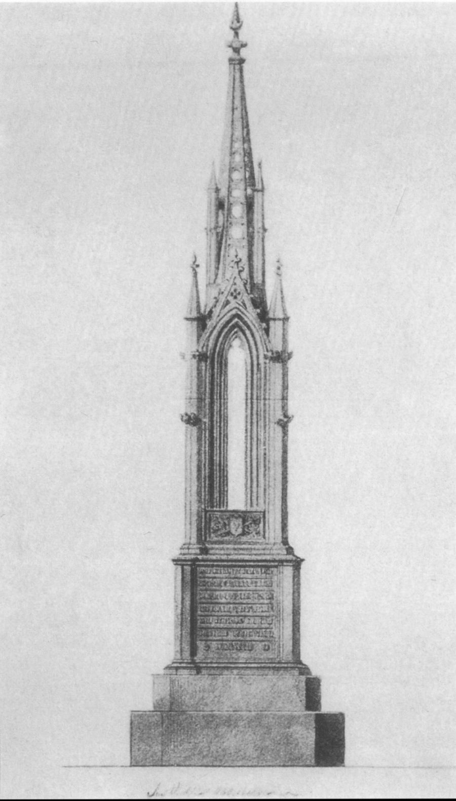 sketch by Karl Friedrich Schinkel with design of the grave monument for F.B.E. Graf Tauentzien von Wittenberg on Invalidenfriedhof cemetery in Berlin (1835), not used